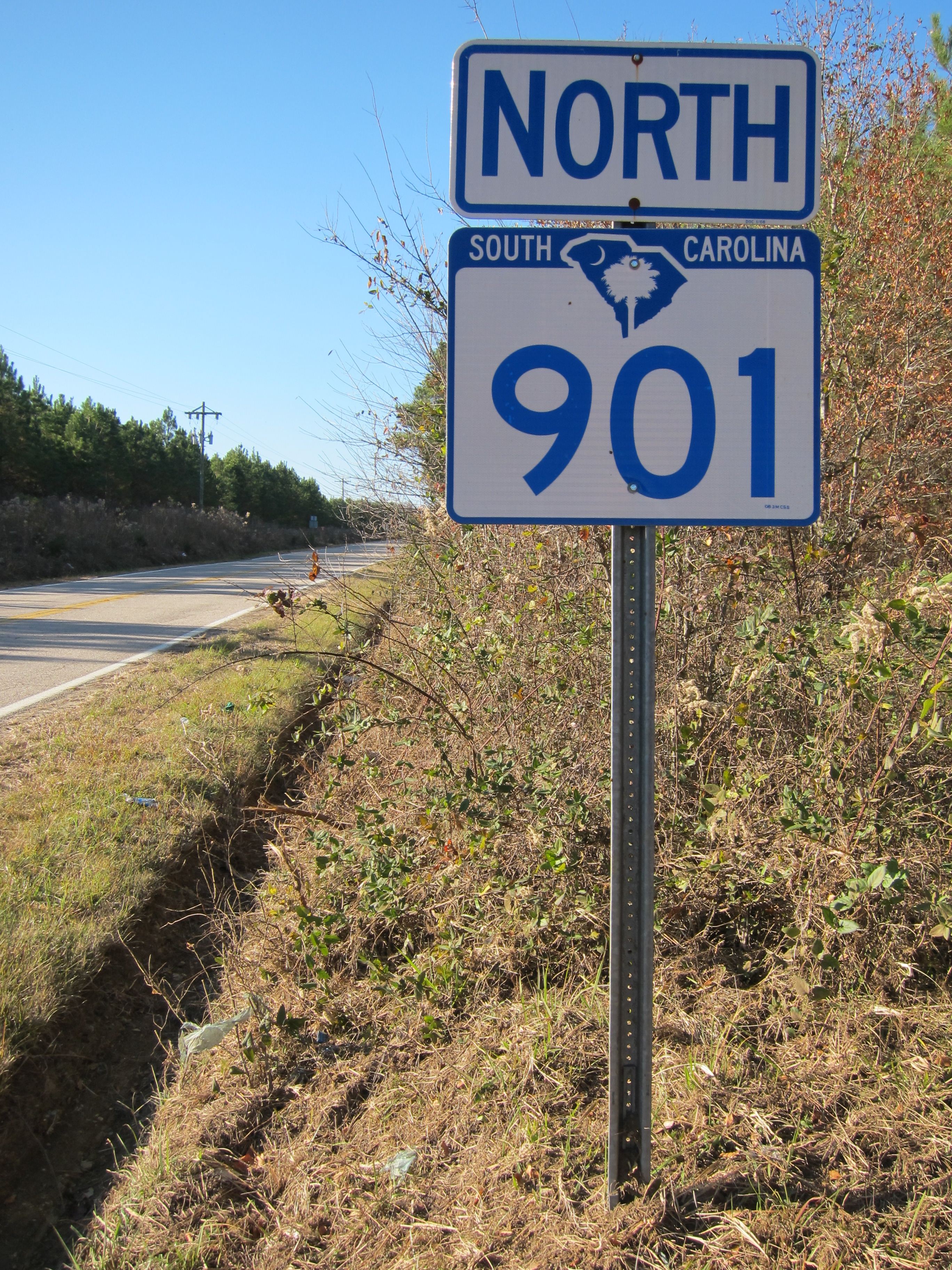 First sign of SC 901 North, in Fairfield County. The state highway generally hovers around Interstate 77 going north to Rock Hill.